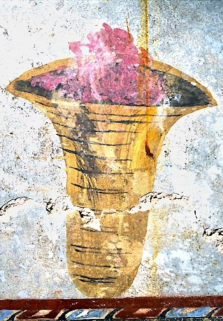 Macedonian tomb III in Lete Fresco